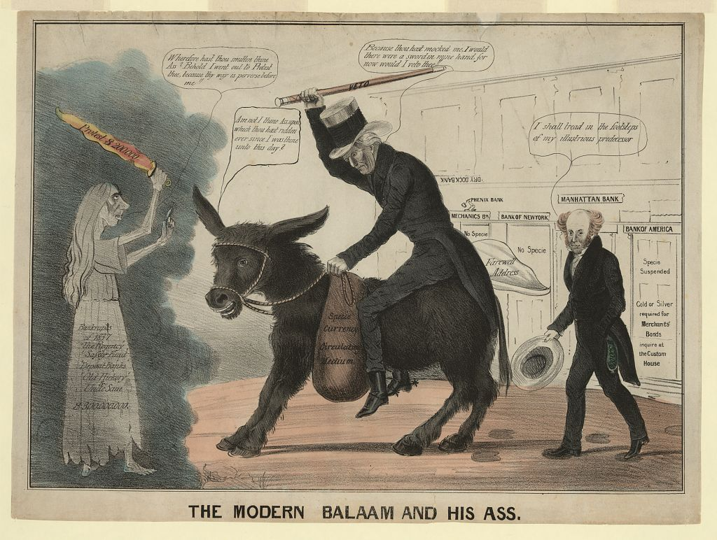 1837 political caricature "The modern Balaam and his ass", which uses the Biblical story of Balaam (from the book of Numbers) to satirize the end of the Andrew Jackson presidency. A gaunt figure labeled Bankrupts of 1837 "the Regency" "Safety Fund" "Deposit Banks" "Old Hickory" & Uncle Sam $300,000,000 holds a fiery sword labeled Protest $200,000. The figure says "Wherefore hast thou smitten thine Ass? Behold I went out to Protest thee, because thy way is perverse before me!!" An ass carrying a man and a sack with the words Specie Currency Circulating Medium replies to the figure, "Am not I thine Ass upon which thou hast ridden ever since I was thine unto this day?" The man ontop the talking Ass wields a cane with the word Veto on it and says to the figure, "Because thou hast mocked me, I would there were a sword in mine hand, for now would I veto thee!!" The man also has part of his garment labeled Farewell Address. A man walking behind him with a bulge in his pocket labeled $300,000 says, "I shall tread in the footsteps of my illustrious predecessor."